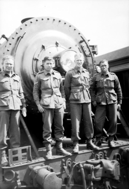 Soldiers from the 2/4th Machine Gun Battalion at Quorn, South Australia, 11 October 1941.